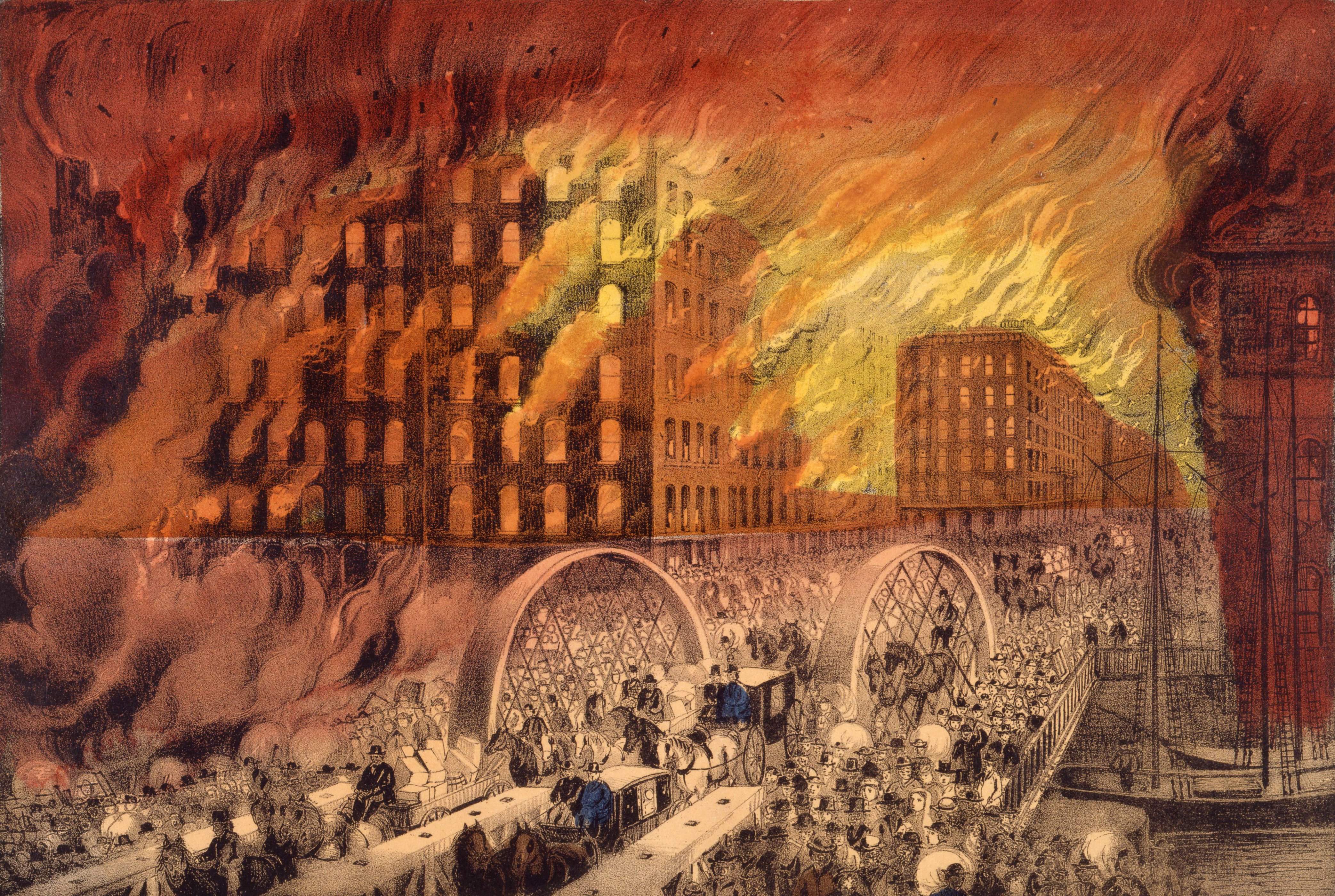 The Currier & Ives lithograph shows people fleeing across the Randolph Street Bridge. Thousands of people literally ran for their lives before the flames, unleashing remarkable scenes of terror and dislocation. "The whole earth, or all we saw of it, was a lurid yellowish red," wrote one survivor. "Everywhere dust, smoke, flames, heat, thunder of falling walls, crackle of fire, hissing of water, panting of engines, shouts, braying of trumpets, roar of wind, confusion, and uproar."